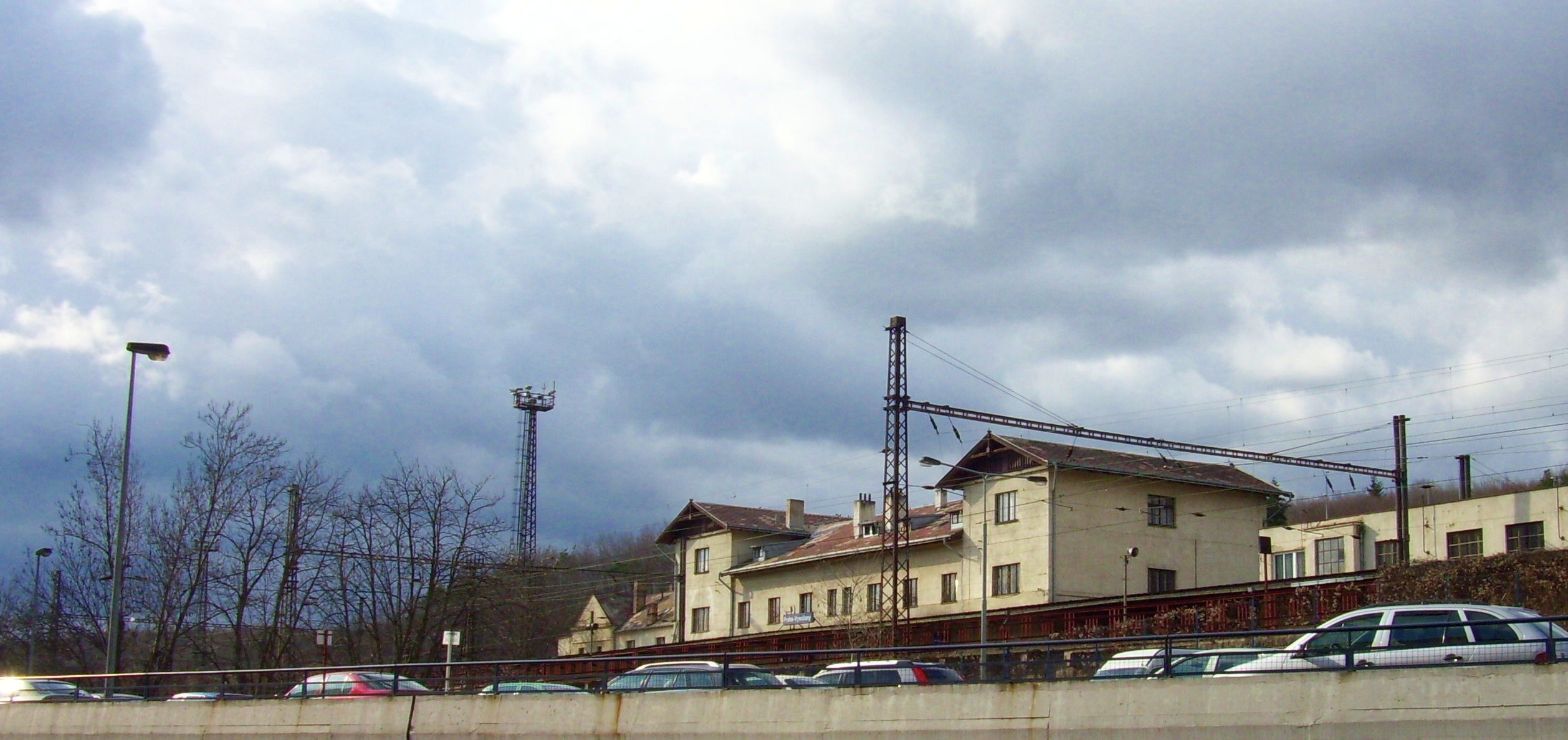 Railway station Praha-Vysočany seen from quarter Vysočany